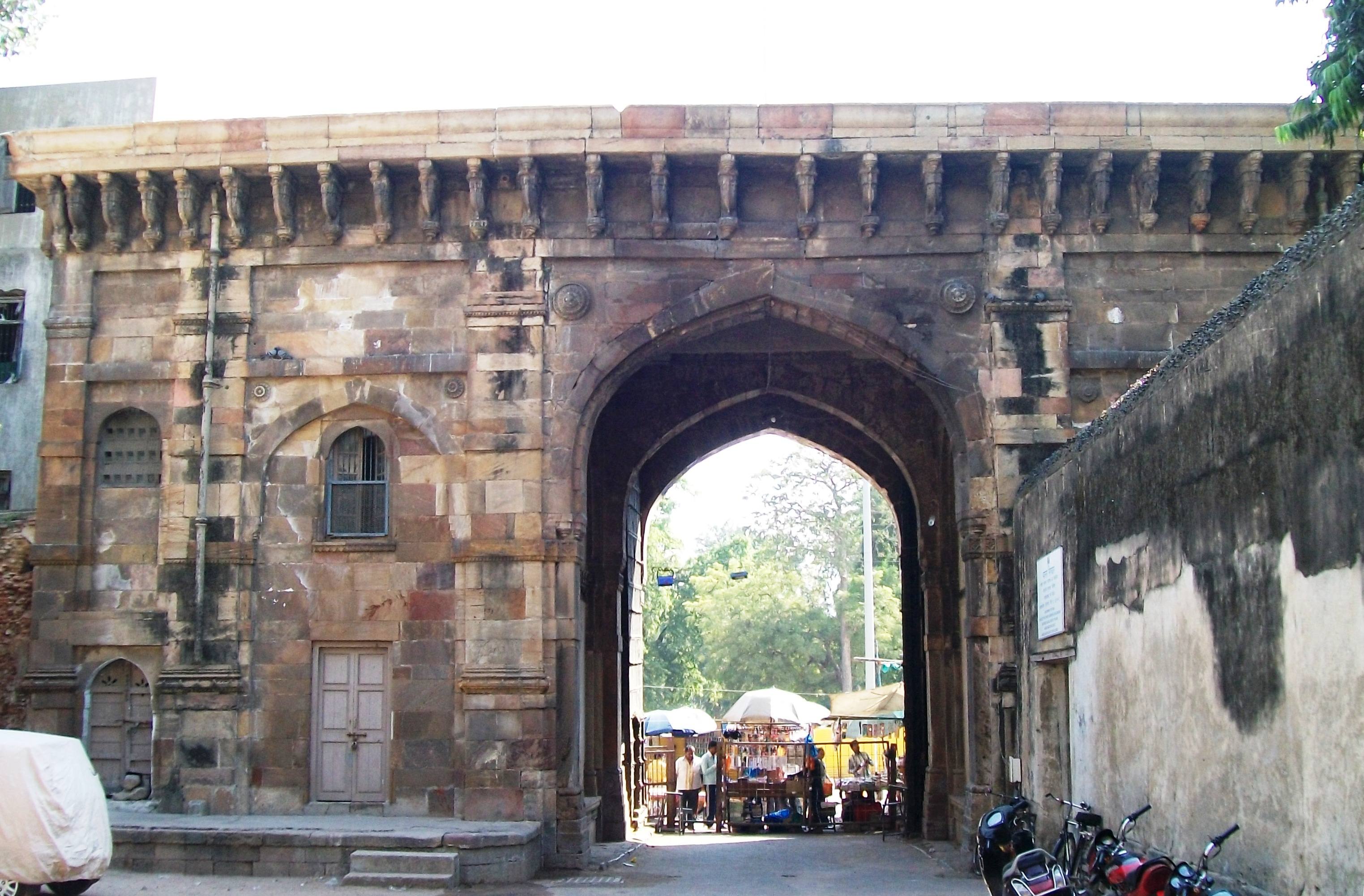 Bhadra fort situated at Ahmedabad, India. Inside view